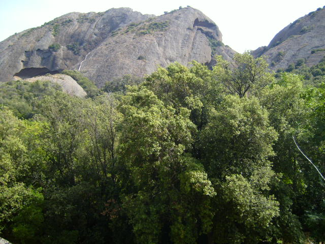 View of the Parc du Mugel, La Ciotat, France